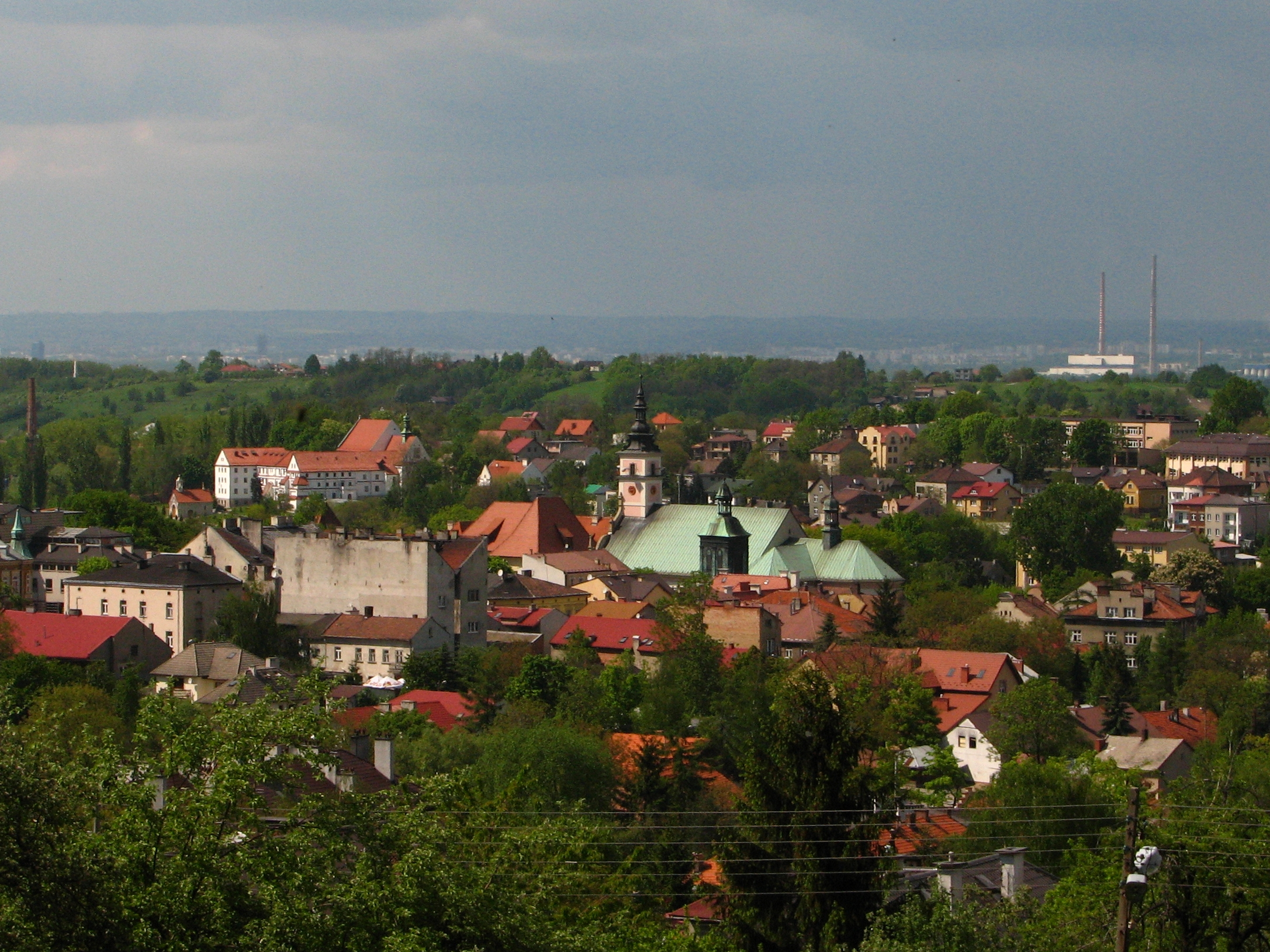 The view at the centre of Wieliczka, Poland. St. Clement's church can be seen at the centre.